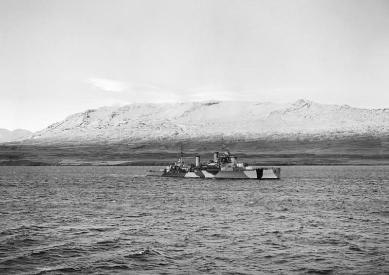 British light cruiser HMS JAMAICA in dazzle paint at Hvalfjörður, Iceland, photographed from the aircraft carrier HMS FORMIDABLE